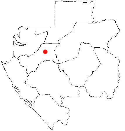 Ndjole, Gabon Location Map, created with the GIMP.